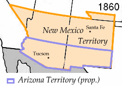 The Arizona Territory, as proposed in 1860.